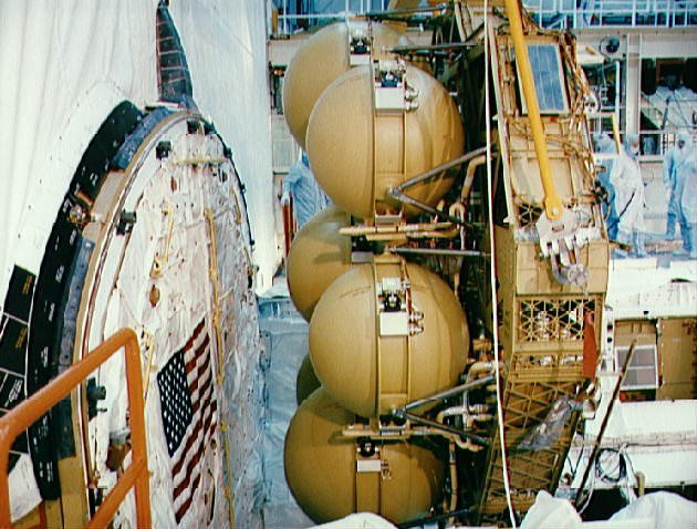 STS-50 Columbia, Orbiter Vehicle (OV) 102, United States Microgravity Laboratory 1 (USML-1) vehicle and payload processing conducted at Kennedy Space Center (KSC). Clean-suited crewmembers and technicians examine and test USML-1 spacelab (SL) module systems during preflight procedures in Operations and Checkout (O and C) Building (41070). In the Orbiter Processing Facility (OPF) High Bay 3, OV-102 payload bay (PLB) overall view shows thermal blanket covered USML-1 SL module and extended duration orbiter (EDO) pallet (left of SL module) before SL tunnel installation as workers continue to establish mechanical interfaces between USML-1 and OV-102 (41071); and closeup view shows the installation ofthe EDO pallet near the rear bulkhead (41072). View provided by KSC with alternate numbers KSC-92PC-592 for S92-41072; KSC-92PC-758 for S92-41070; and KSC-92PC-840 for S92-41071.